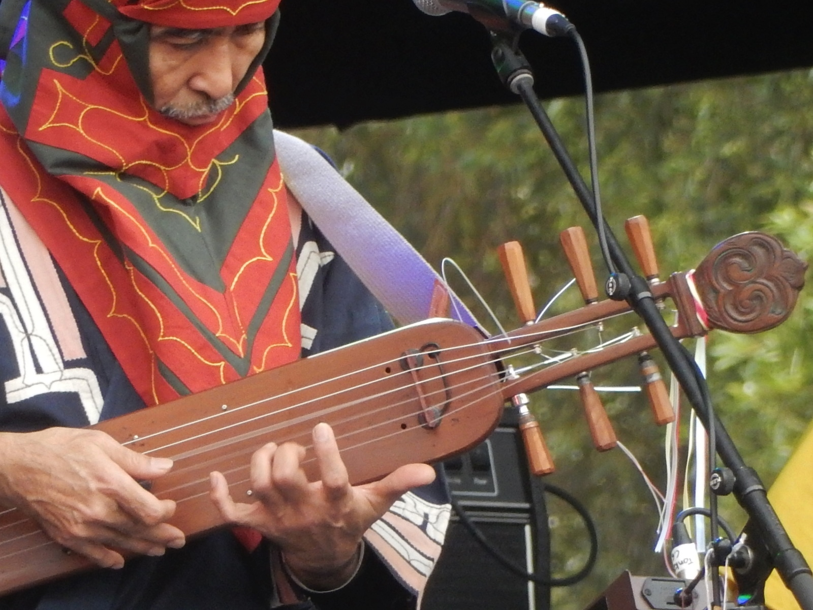 Used at